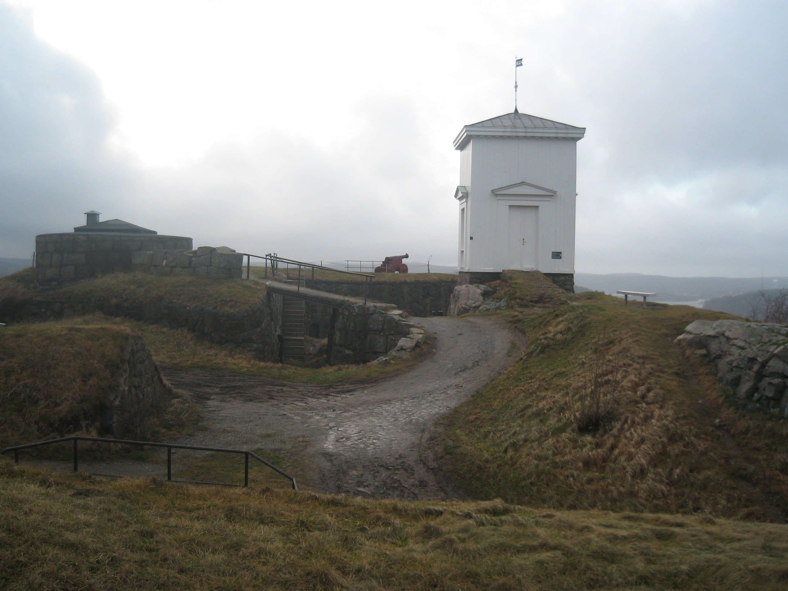 Klokketårnet - The Bell Tower or Clock Tower - building from 1833 at Fredriksten fortress in Halden, Norway. Architect Balthazar Nicolai Garben.